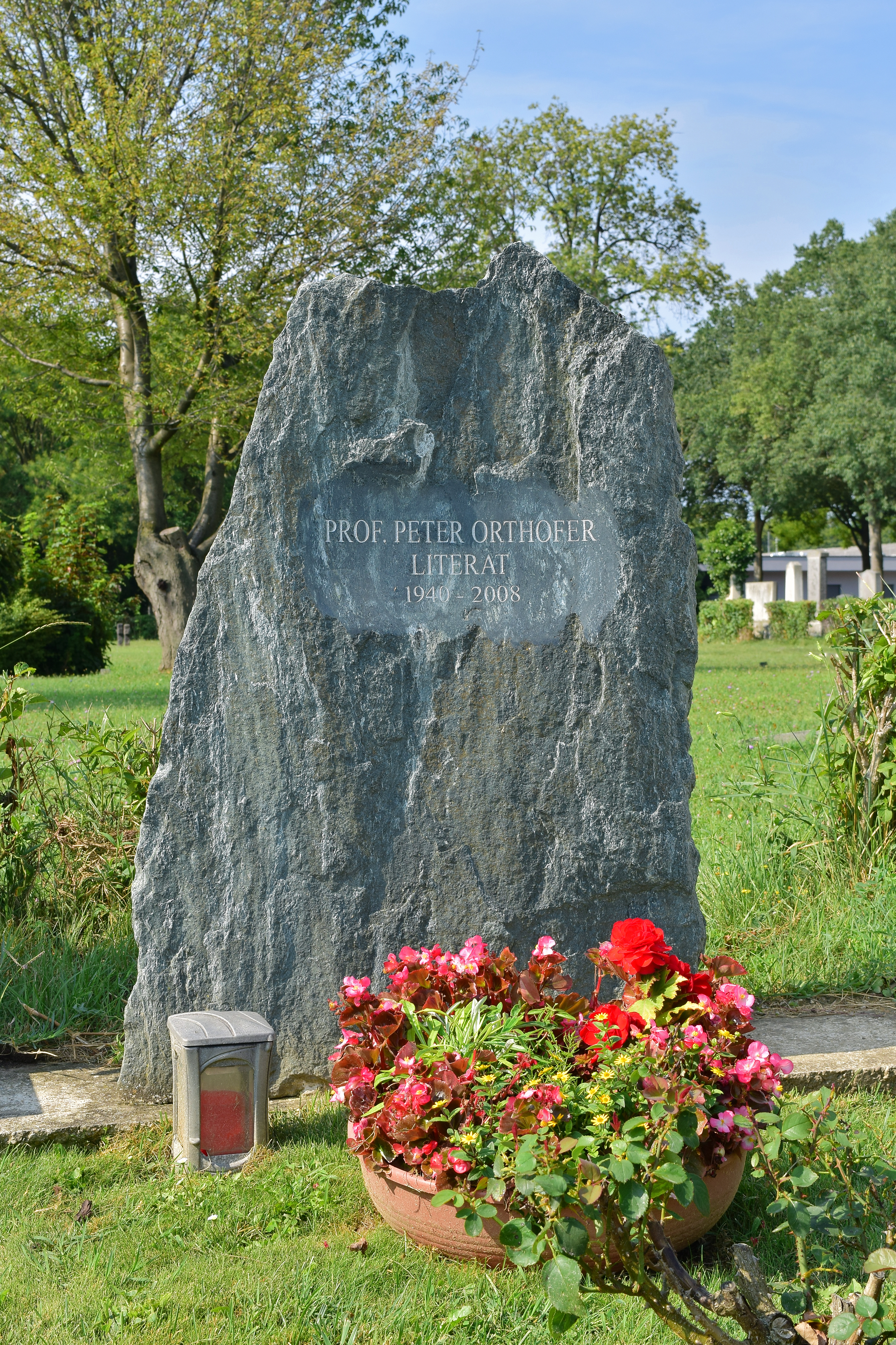 Grave of honor of the Austrian writer Peter Orthofer at the Wiener Zentralfriedhof